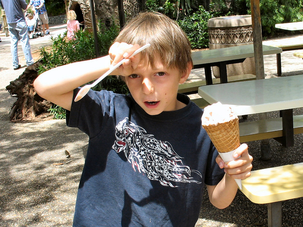 A child attempts to mitigate the effects of an ice-cream headache by putting his hand to his forehead and dancing the pain away. Photo taken with a Canon PowerShot G6 digital camera.